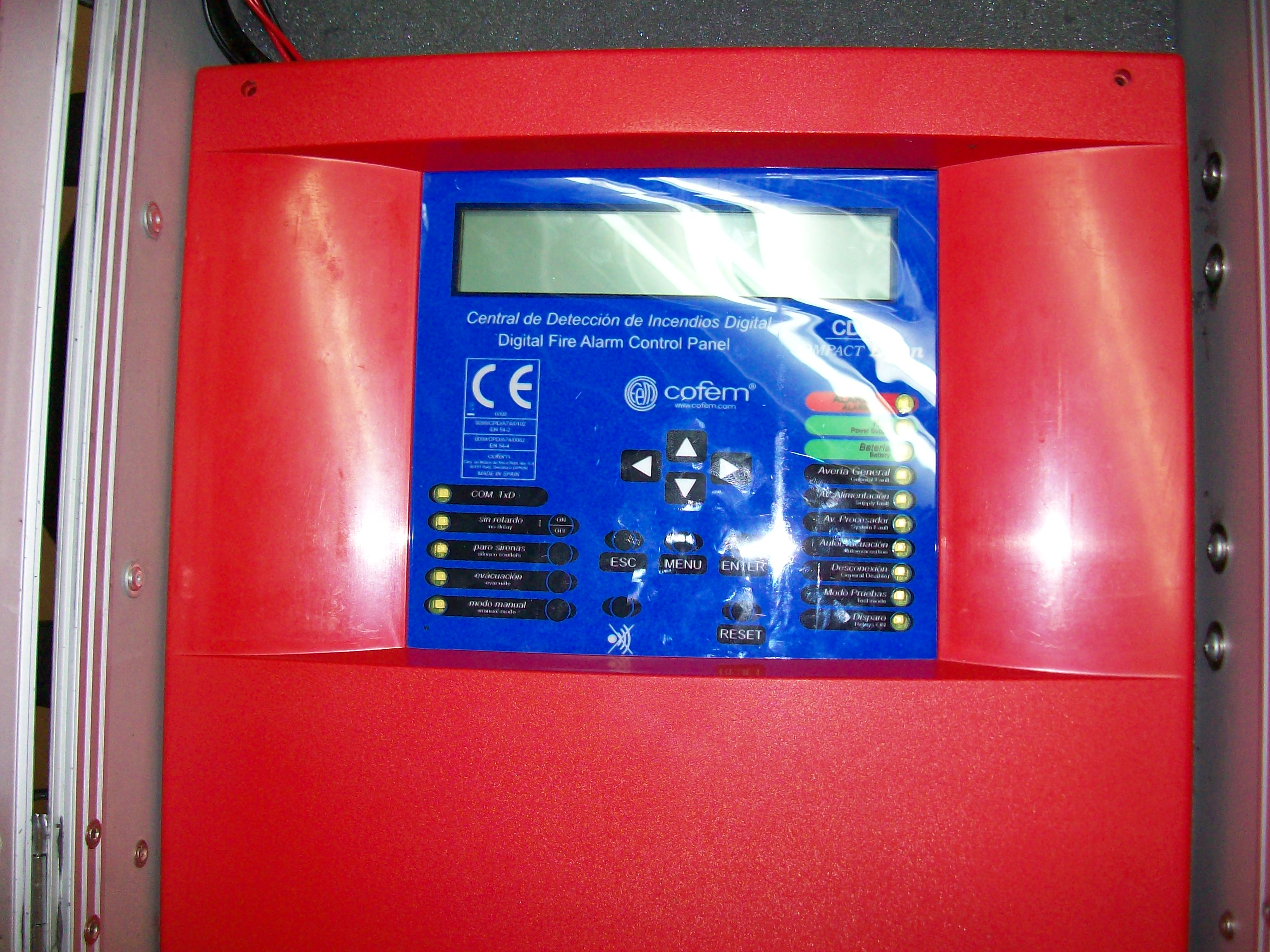 Addressable Panel of Fire Detection System COFEM